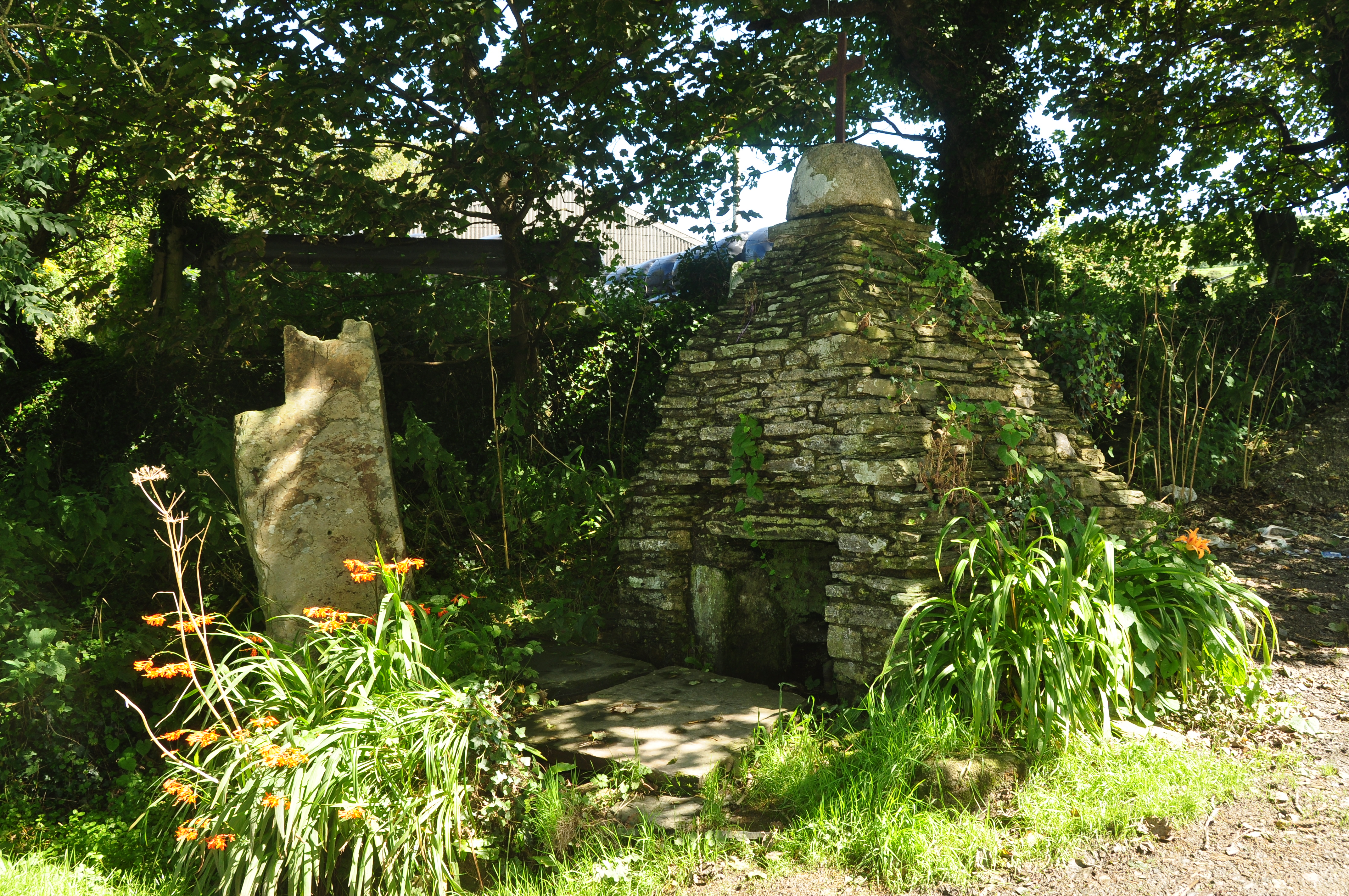 St Piran's Well, Trethevey